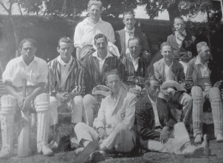 1909 Pacific Railway AC cricket team: W. Smith, T. M. Barrs, B. A. Turner, J. J. Goncalvez, B. J. Wisdom, H. Lacey, H. M. Gubbins, R. J. Wright, Ivor Williams, A. Harris, A. Pires.